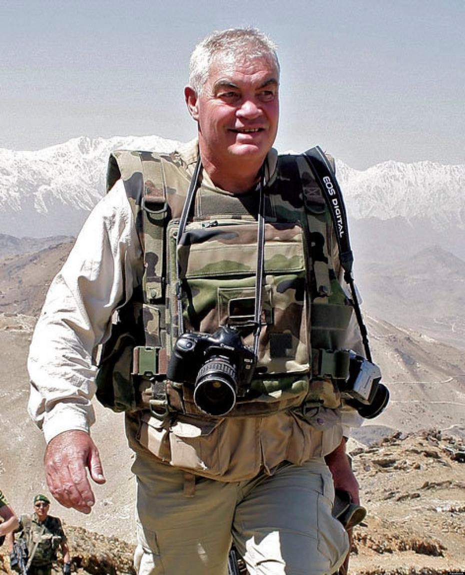 Islamic Republic of Afghanistan, Kabul Heights, MANPADS position, township of Pay Menar. The 2nd Foreign Infantry Regiment (French Foreign Legion) Thursday, March 31, 2005. Photograph copyright Karl PROST.